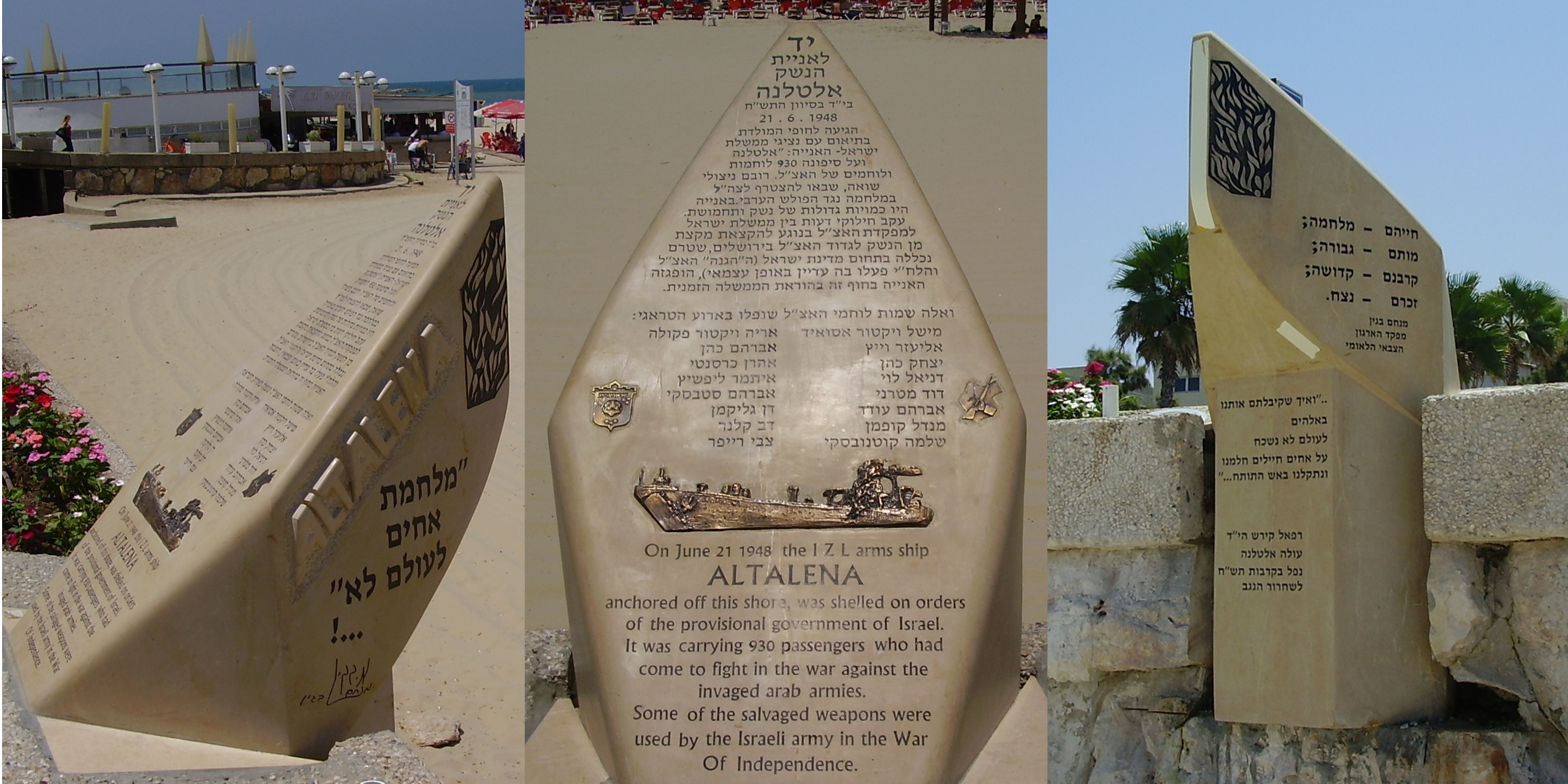 Based on Image:Altalena Memorial on Tel-Aviv Seashore.jpg, he:תמונה:פקודת מנחם בגין באנדרטת אלטלנה.jpg and he:תמונה:דברי מנחם בגין ועדות לוחם על פרשת אלטלנה באנדרטת אלטלנה בחוף תל אביב.jpg